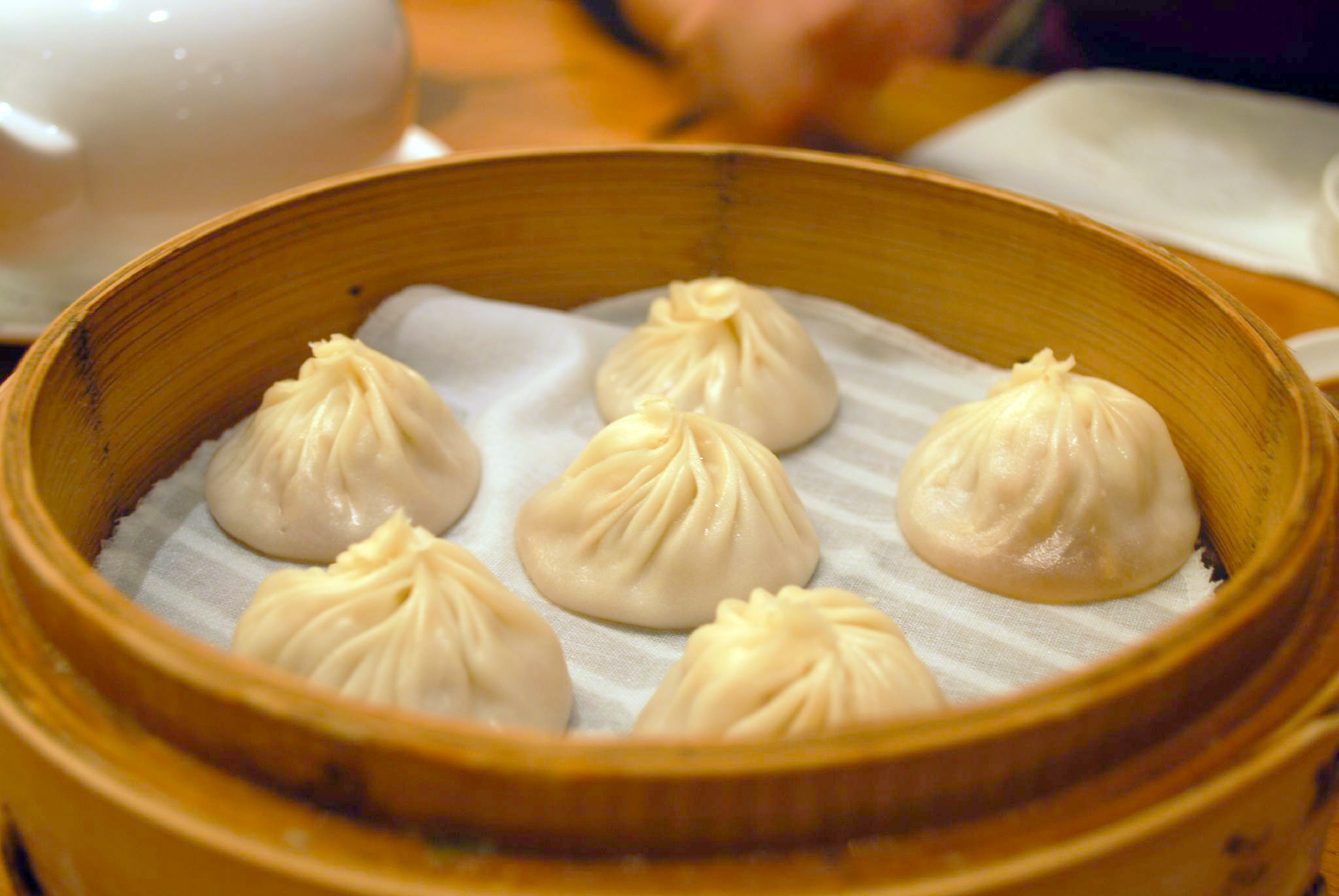 Dainty 小龙包 Xiao Long Bao dumplings with delicate flavours. We probably should have had more! The 原盅走地鸡汤 free-range chicken soup was quite flavoursome, especially when served with a dash of Chinese rice wine. The Shanghainese-style noodles were super-smooth and extra slippery. They were also extremely white, lacking in the nutty flour flavour, and had a faint tinge of chlorine, perhaps because it was bleached flour. Unbleached flour would probably have been tastier. The 虾仁炒饭 fried rice with shrimp and 干煸四季豆 dry-fried French Beans were ok, nothing special. We finished with a 红豆酥 Golden Red Bean Bread with was crunchy fried bread encasing smooth sweetened red-bean mash. Very nice, and not too greasy either. The taro-filling in the 芋泥小龙包 Taro Xiao Long Bao was very smooth, but the wrapper didn't provide enough textural contrast. 鼎泰丰 Din Tai Fung Restaurant (02) 9264 6010 World Square Shopping Centre Shop 11/ 644 George St Sydney NSW 2000